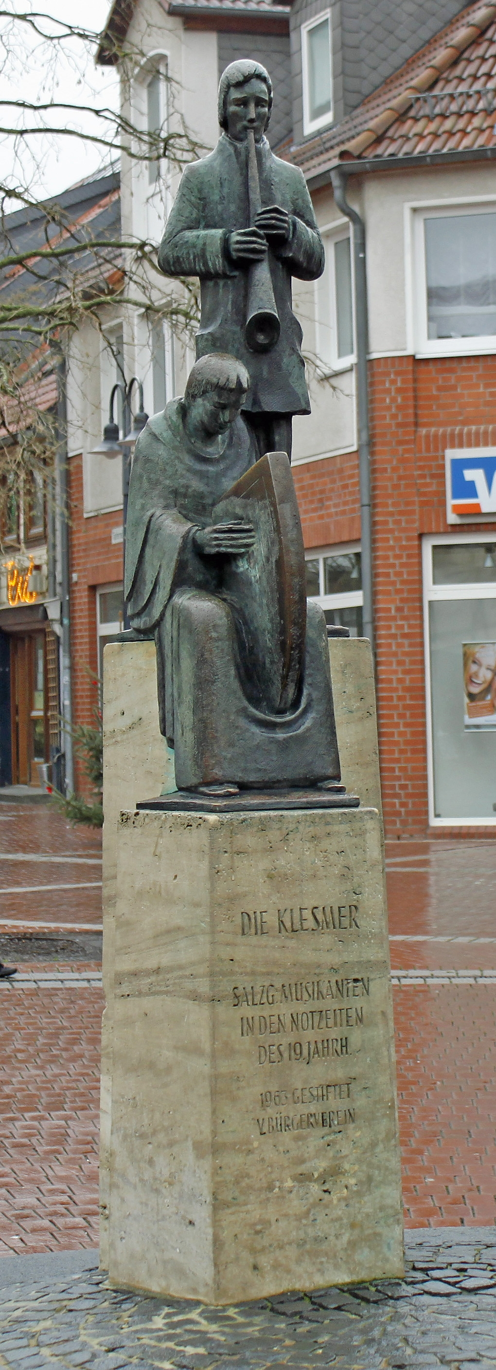 Klesmer statue in Salzgitter-Bad, Germany